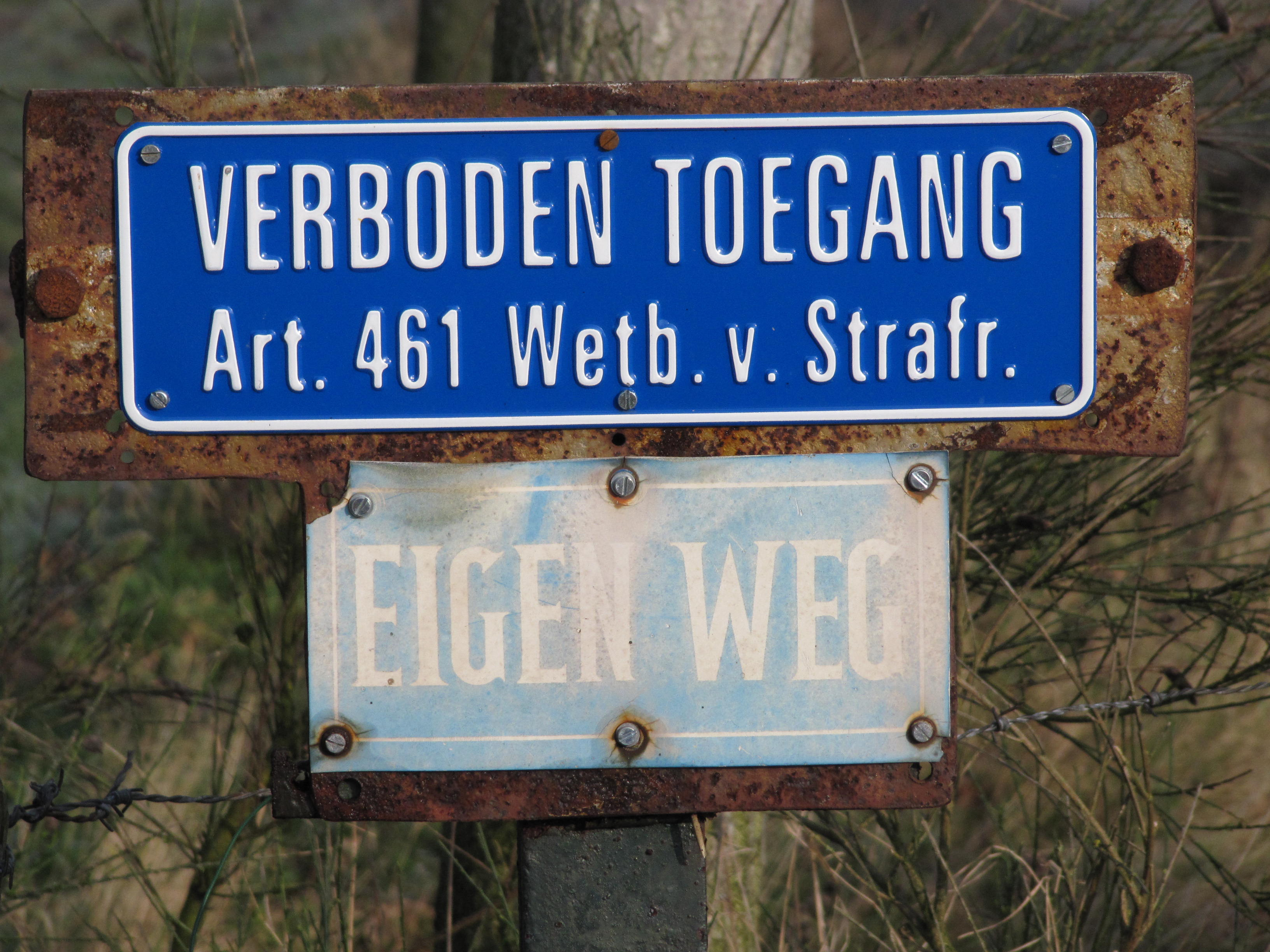 Dutch no-trespassing and private road sign